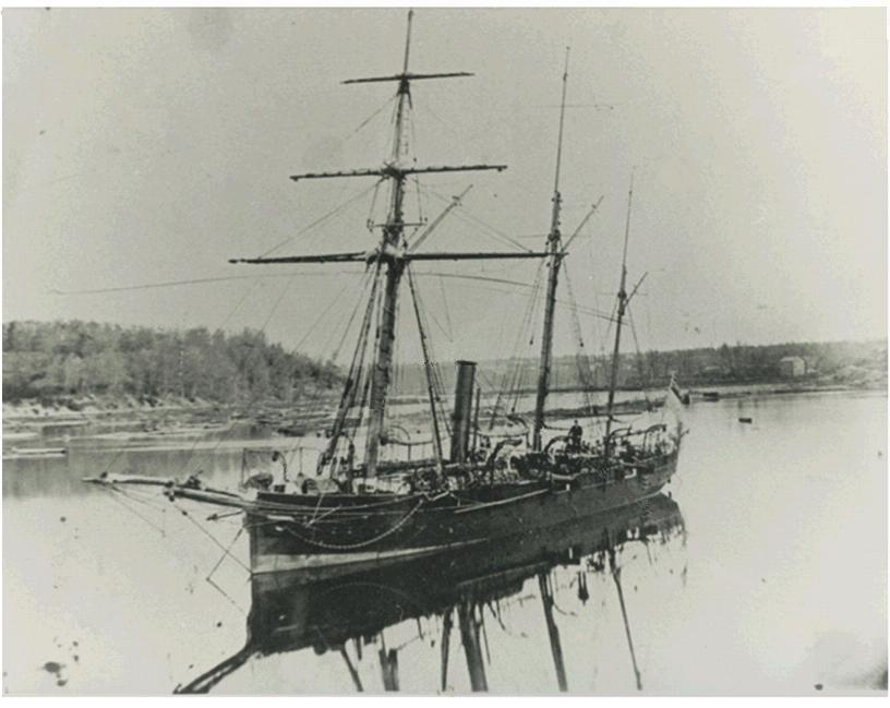 Britomart-class gunboat HMS Cherub at Goderich, Lake Ontario, in 1866